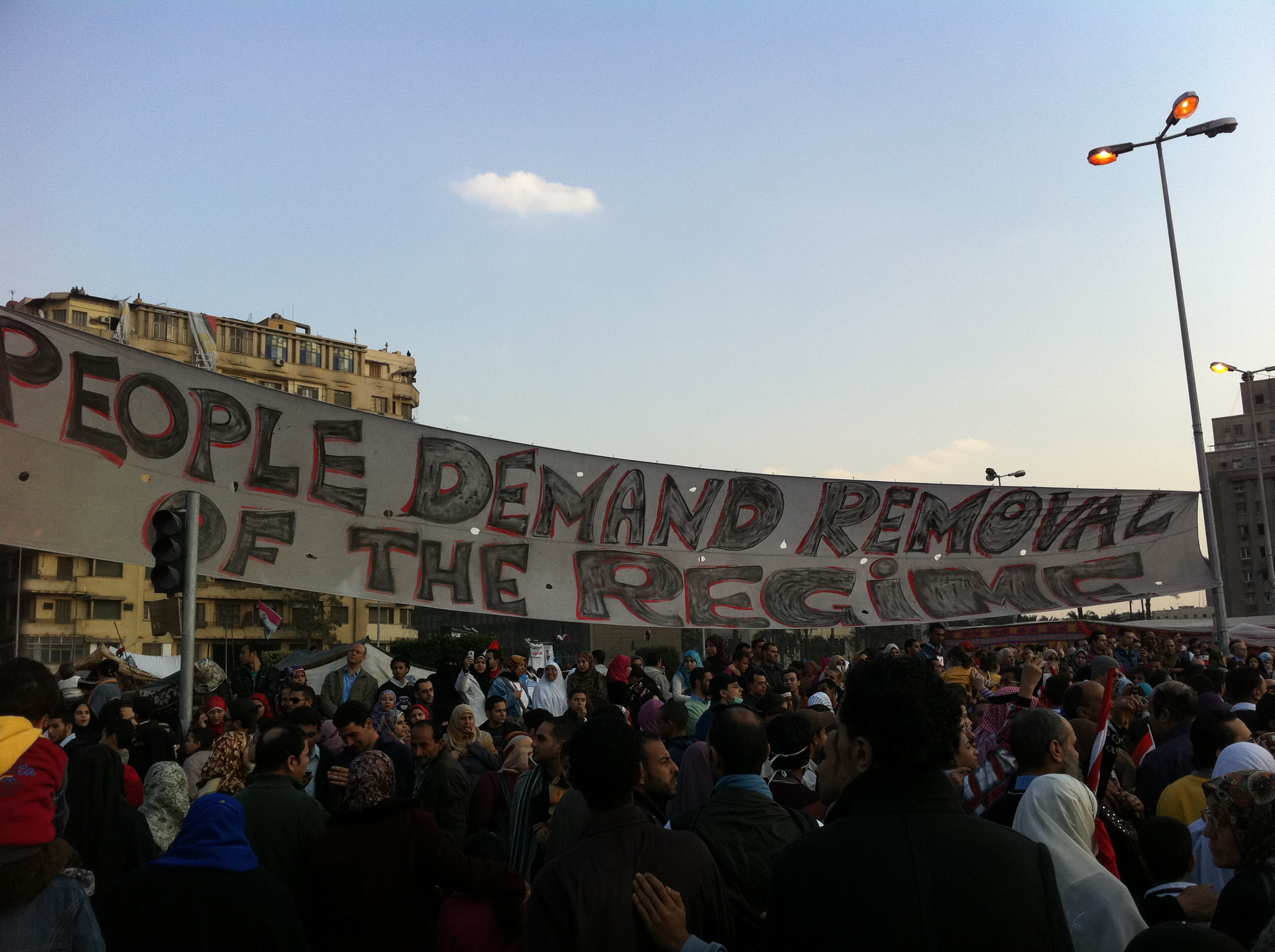 Banner on Tahrir square: "People demand removal of the Regime"